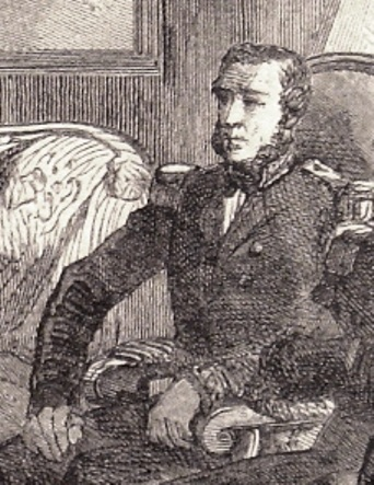 Colonel Neale at the Franco-Anglo-Japanese conference on the Semiramis, July 2, 1863